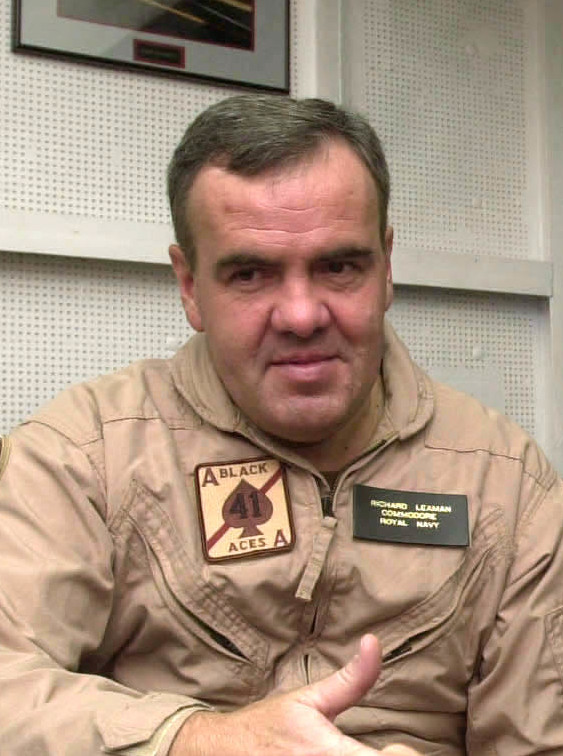 Central Command Area of Responsibility (July 29, 2003) -- Lcdr. Scott Toppel, of Sunny Vale, Calif., assigned to the “Black Aces” of Strike Fighter Attack Squadron Forty One (VFA-41) briefs British Royal Navy Commodore Richard Leaman prior to a flight in a F/A-18F Super Hornet. Commador Leaman is visiting aboard USS Nimitz (CVN 68). The Nimitz Strike Group and her embarked Carrier Air Wing Eleven (CVW-11) are deployed in support of Operation Iraqi Freedom, the multi-national coalition effort to liberate the Iraqi people, eliminate Iraq’s weapons of mass destruction, and end the regime of Saddam Hussein. U.S. Navy photo by Airman Maebel Tinoko. (RELEASED)